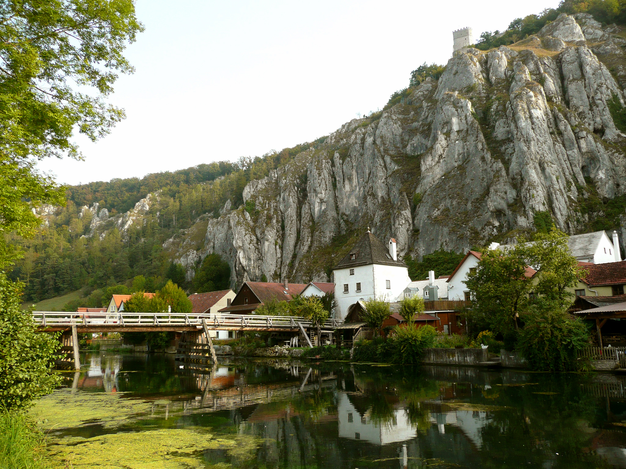 Burg Randeck above the cliff, wooden bridge on the Altmühl (dead arm), September 2009.